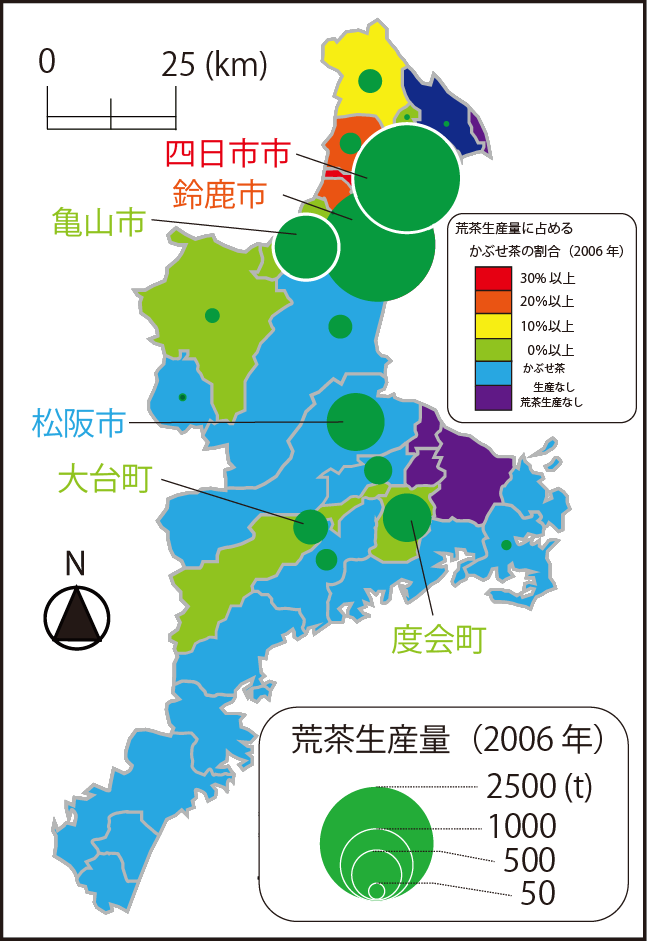 This map shows production of tea in Mie prefecture. Data are from "Mie Statistics Book 2009" (平成21年刊三重県統計書).